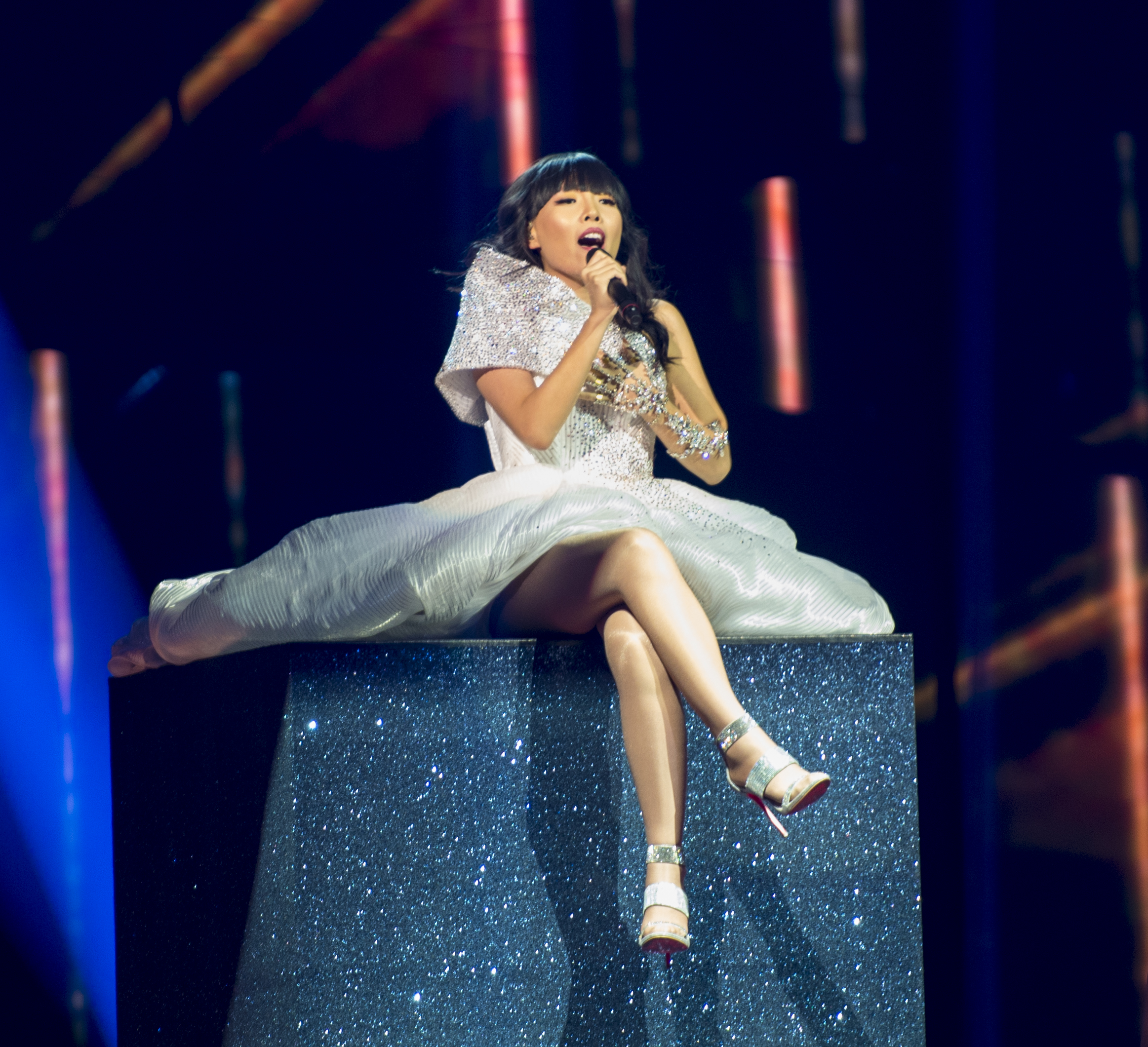 Dami Im representing Australia with the song "Sound of Silence" during a rehearsal before the second semi final of the Eurovision Song Contest 2016 in Stockholm. (Help translate this text)